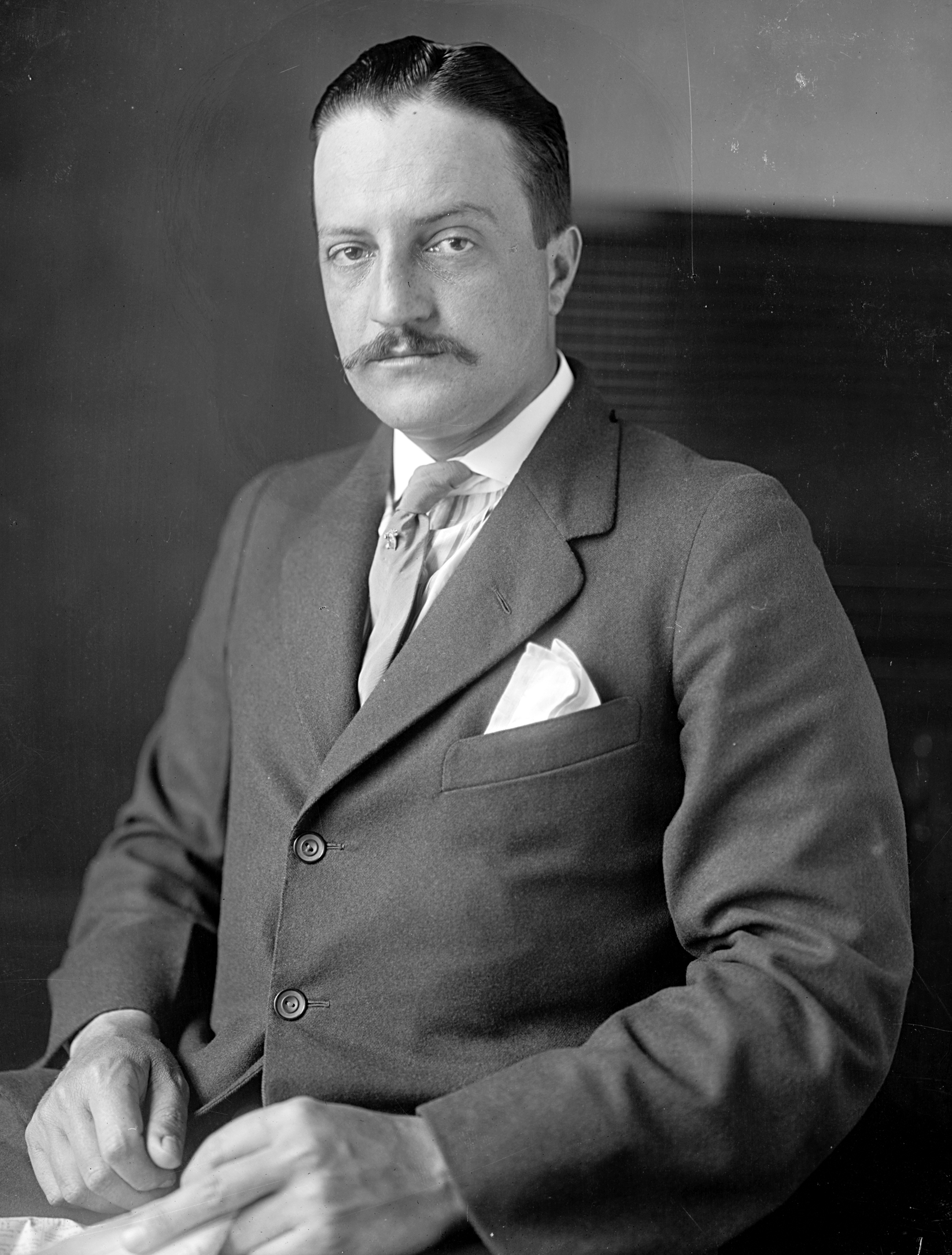 William S. Reyburn, US Representative from Pennsylvania